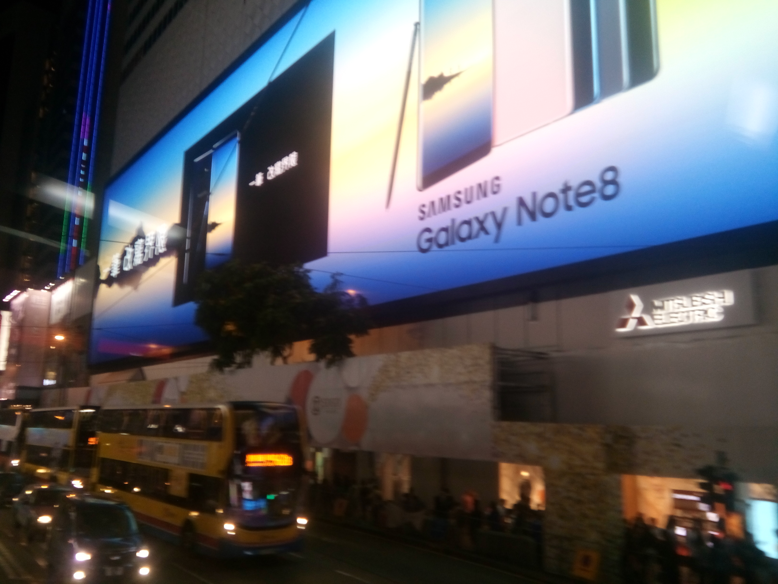 HK 銅鑼灣 CWB 軒尼詩道 Hennessy Road night 東角中心 East Point Centre 戶外廣告 outdoor ads sign October 2017